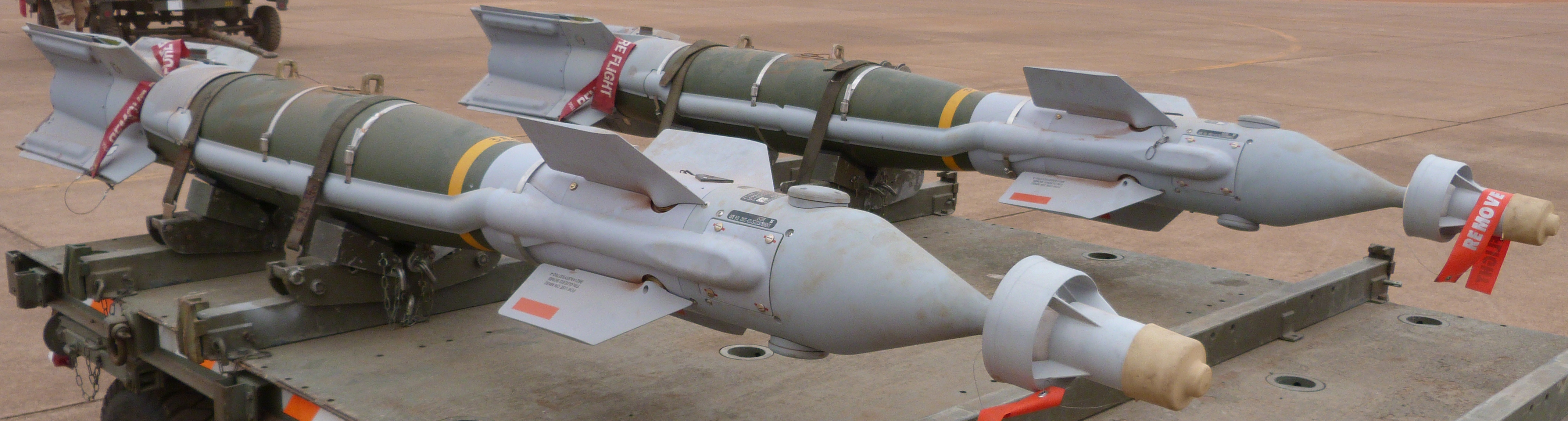 GBU49 on a trailer